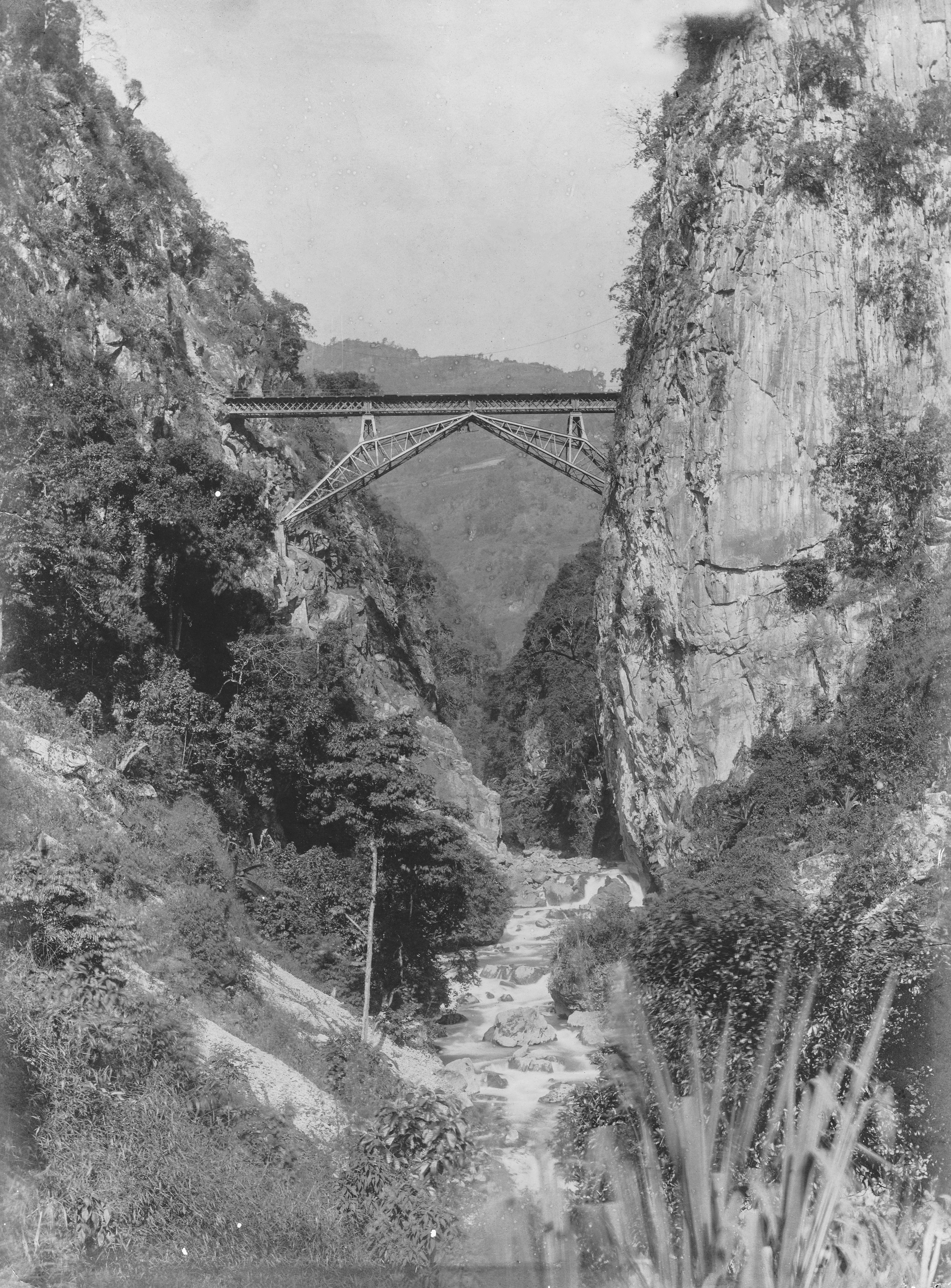 Namiti Bridge, on the Kunming-Hekou Railway, Yunnan, China. The bridge is also known as Wujiazhai Bridge, after a nearby town. It is located in North Wantang Township of Pingbian County, between Boduqing and Luogu stations.